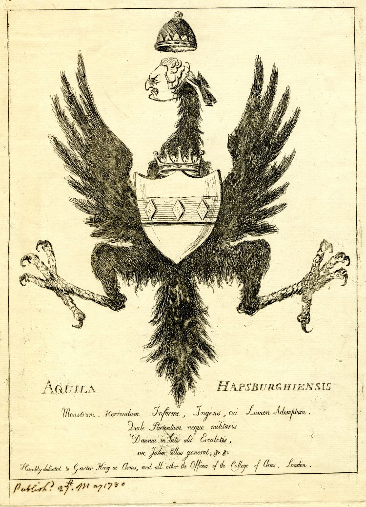 Satire with the Habsburg double-headed eagle showing only one head. Etching by anonymous. On the body of the eagle are the coat of arms of the Feilding family, Earls of Denbigh, who claimed descent from the Habsburgs.[1] The print shows the profile of Basil Feilding, 6th Earl of Denbigh, who was a Lord of the Bedchamber. The satirical print is dedicated to the Garter King of Arms and the College of Arms. 304 mm x 224 mm. Courtesy of the British Museum, London.